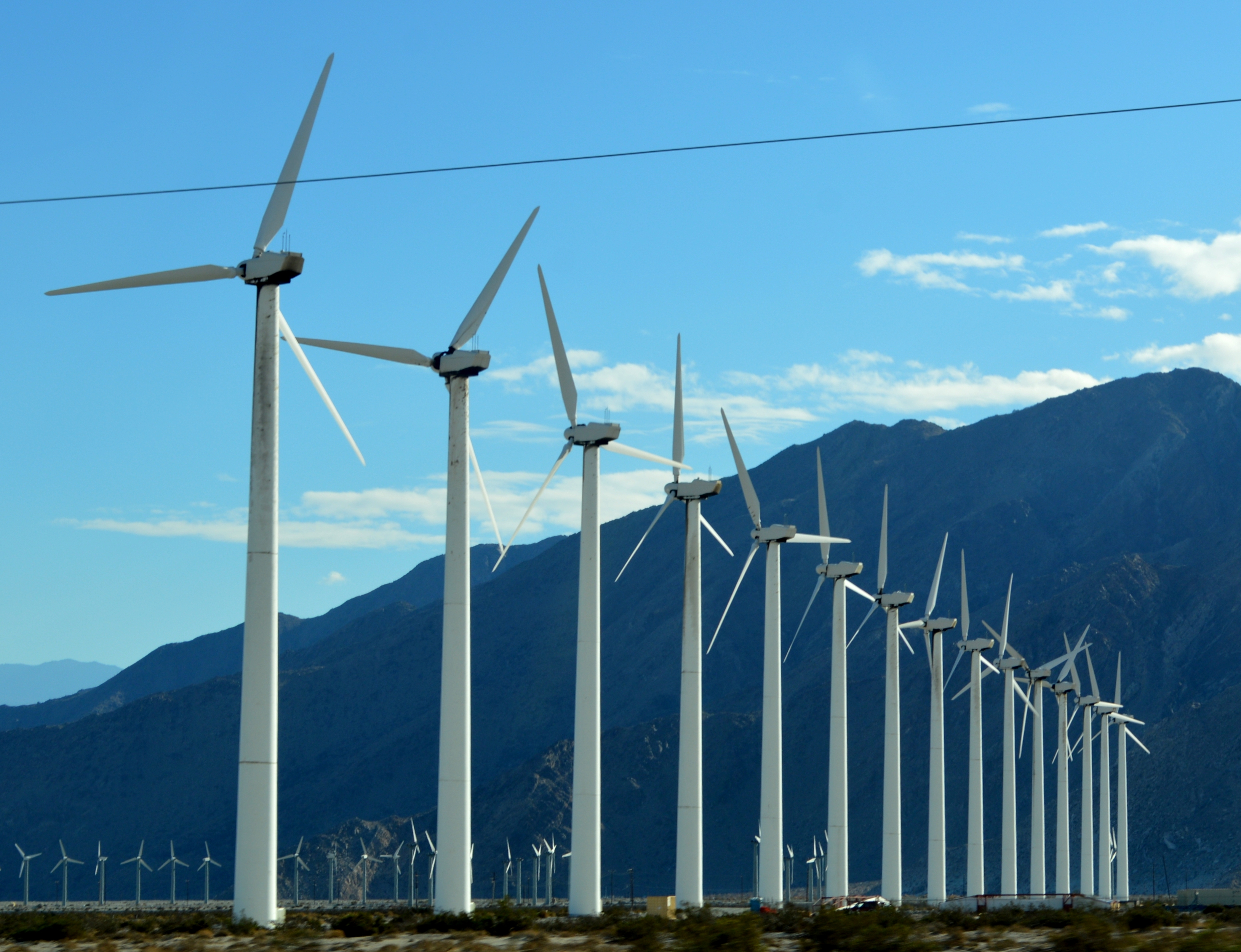 San Gorgonio Pass Wind Farm in Riverside County, California, U.S.A. - seen from Interstate 10